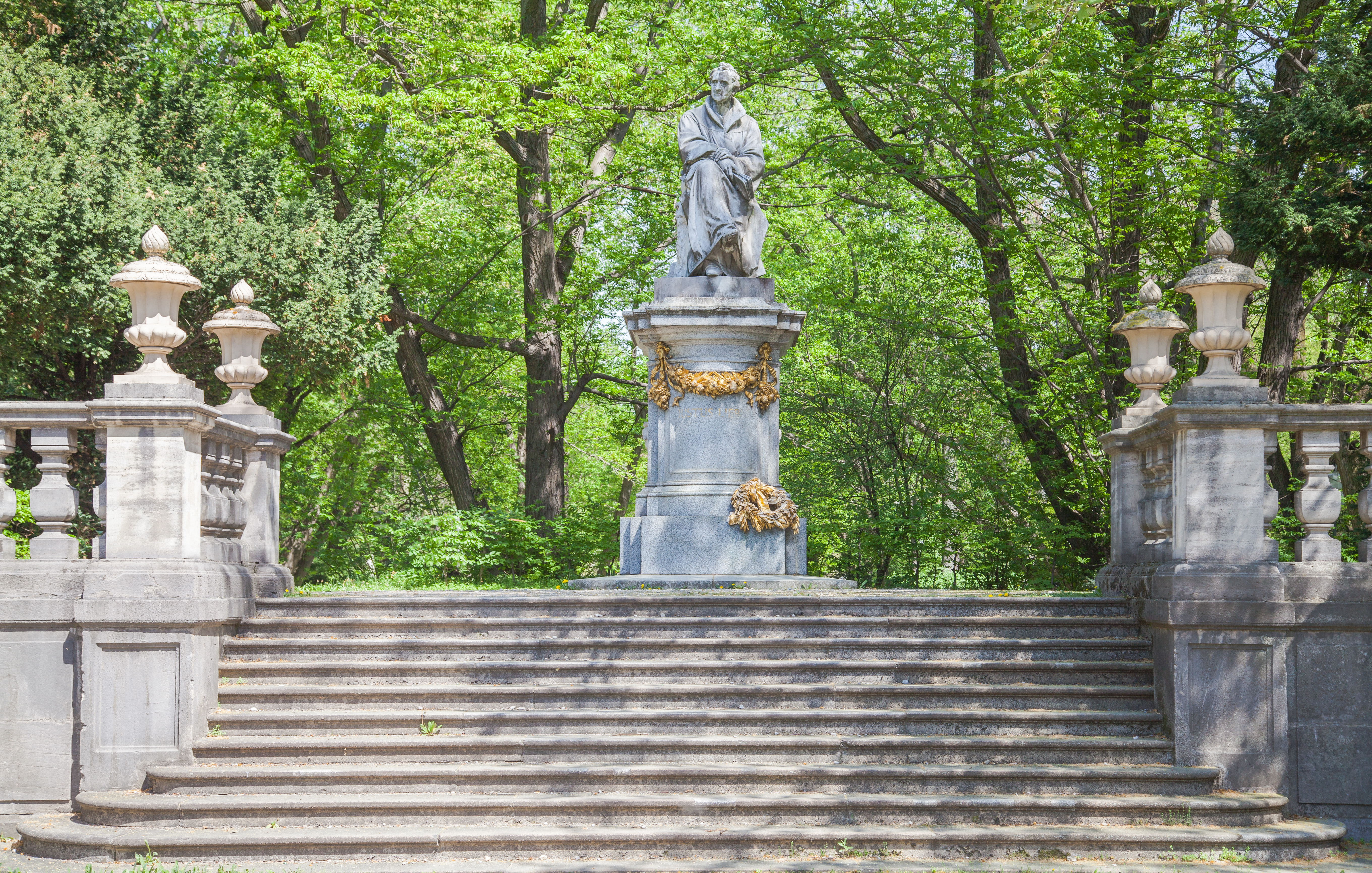 Monument to Justus von Liebig, Munich, Germany